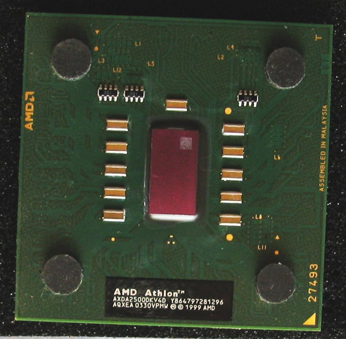 AMD Athlon XP with Barton Core